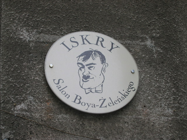 Warsaw, Smolna Street 11, Tadeusz Boy Zelenski's saloon